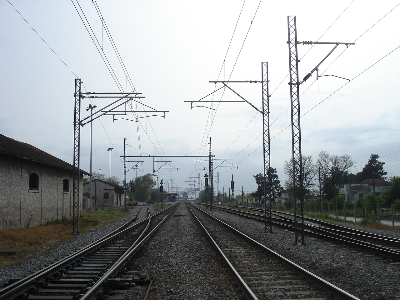 Train station in Greece (Possibly Platy Station).